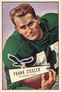 American football player Frank Ziegler on a 1952 Bowman Large card.